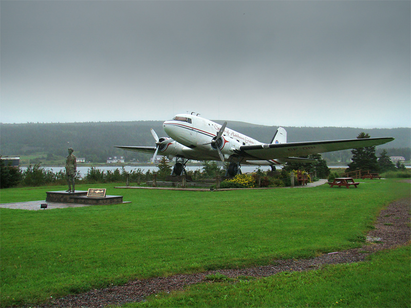 Harbour Grace, Avalon Peninsula, Newfoundland, Canada. The Spirit of Harbour Grace and monument to Amelia Earhart.